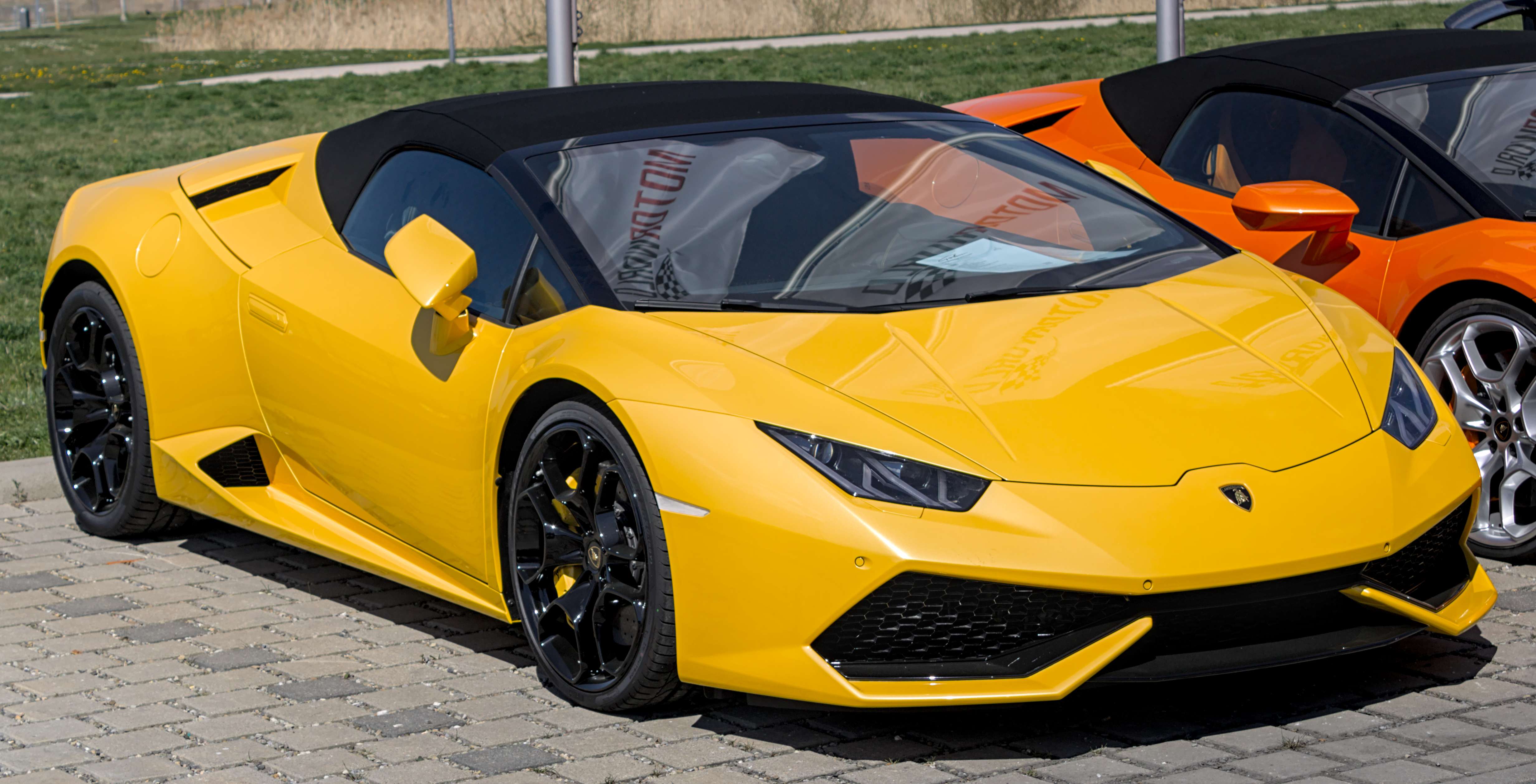 Lamborghini_Huracan_LP_610-4_Spyder in Böblingen